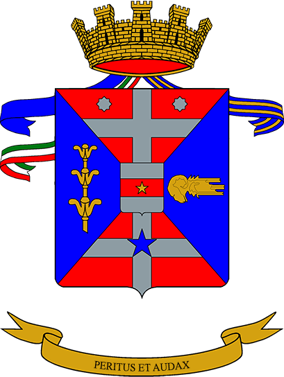 Coat of Arms of the 11° Engineer Regiment; Italian Army.